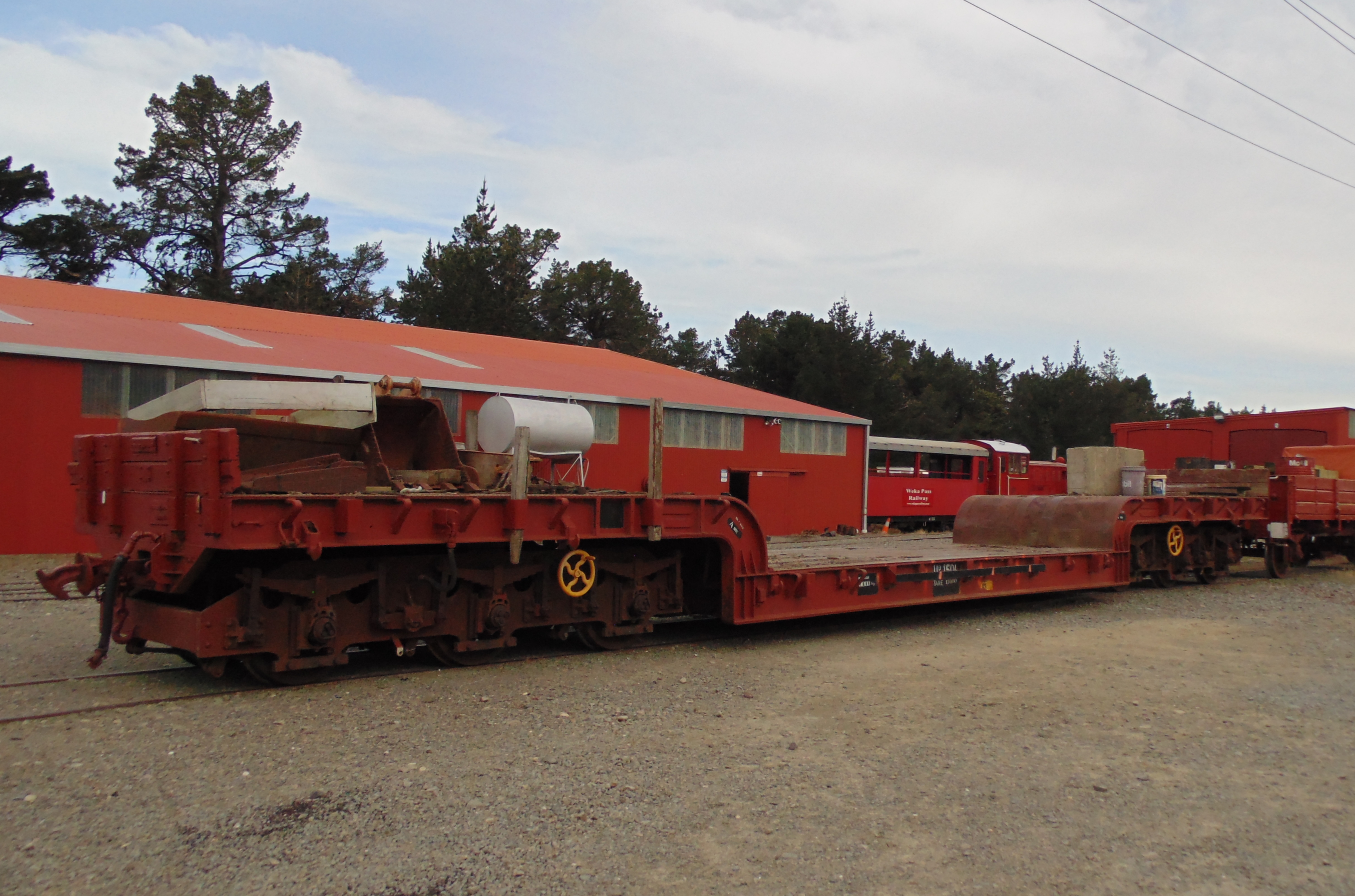 The Weka Pass Railway's Ud well wagon in Waipara.